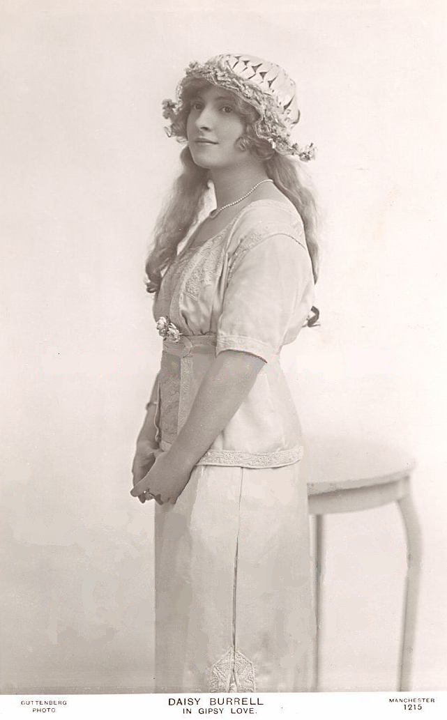 Daisy Burrell in Gipsy Love: postcard of Daisy Burrell (born 1893) appearing in George Edwardes's English production of Franz Lehár's operetta Gipsy Love (1913); published by Guttenberg Photo, numbered as "Manchester 1215".